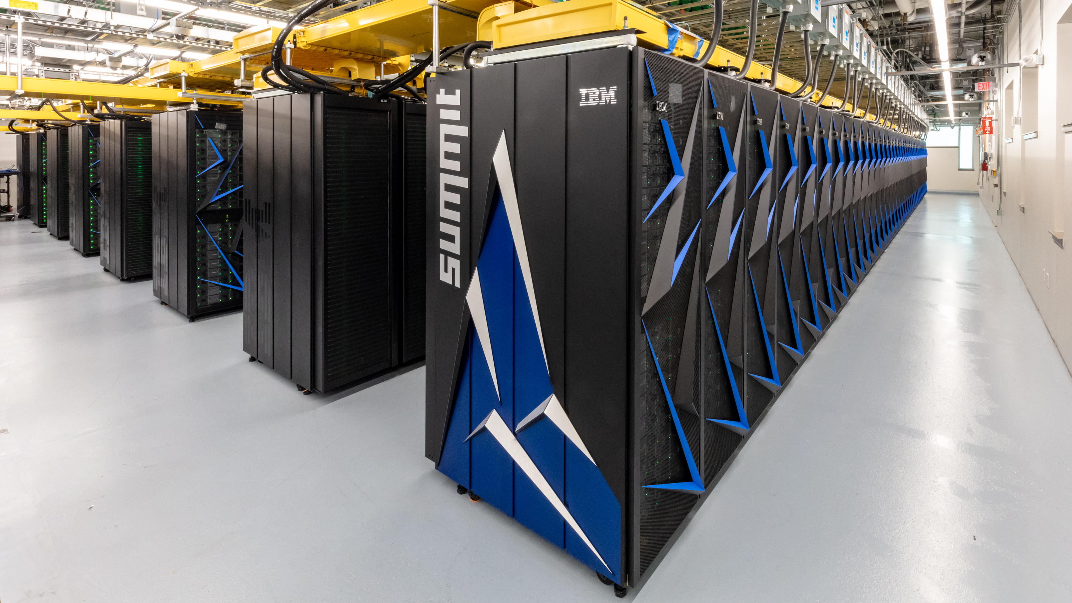 The U.S. Department of Energy’s Oak Ridge National Laboratory unveiled Summit as the world’s most powerful and smartest scientific supercomputer on June 8, 2018. With a peak performance of 200,000 trillion calculations per second—or 200 petaflops, Summit will be eight times more powerful than ORNL’s previous top-ranked system, Titan. For certain scientific applications, Summit will also be capable of more than three billion billion mixed precision calculations per second, or 3.3 exaops. Summit will provide unprecedented computing power for research in energy, advanced materials and artificial intelligence (AI), among other domains, enabling scientific discoveries that were previously impractical or impossible.